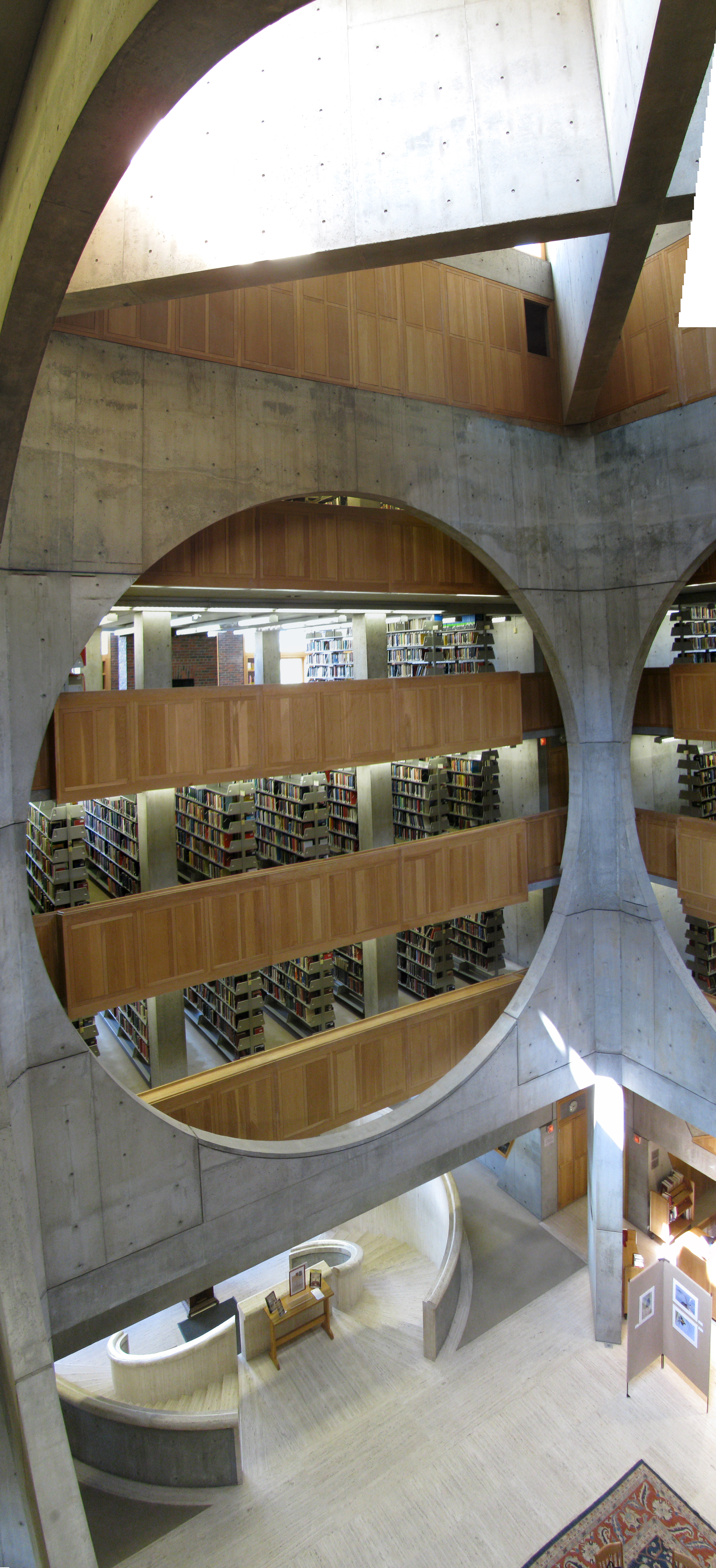 Phillips Exeter Library, New Hampshire - Louis I. Kahn (1972) - Atrium from floor to ceiling